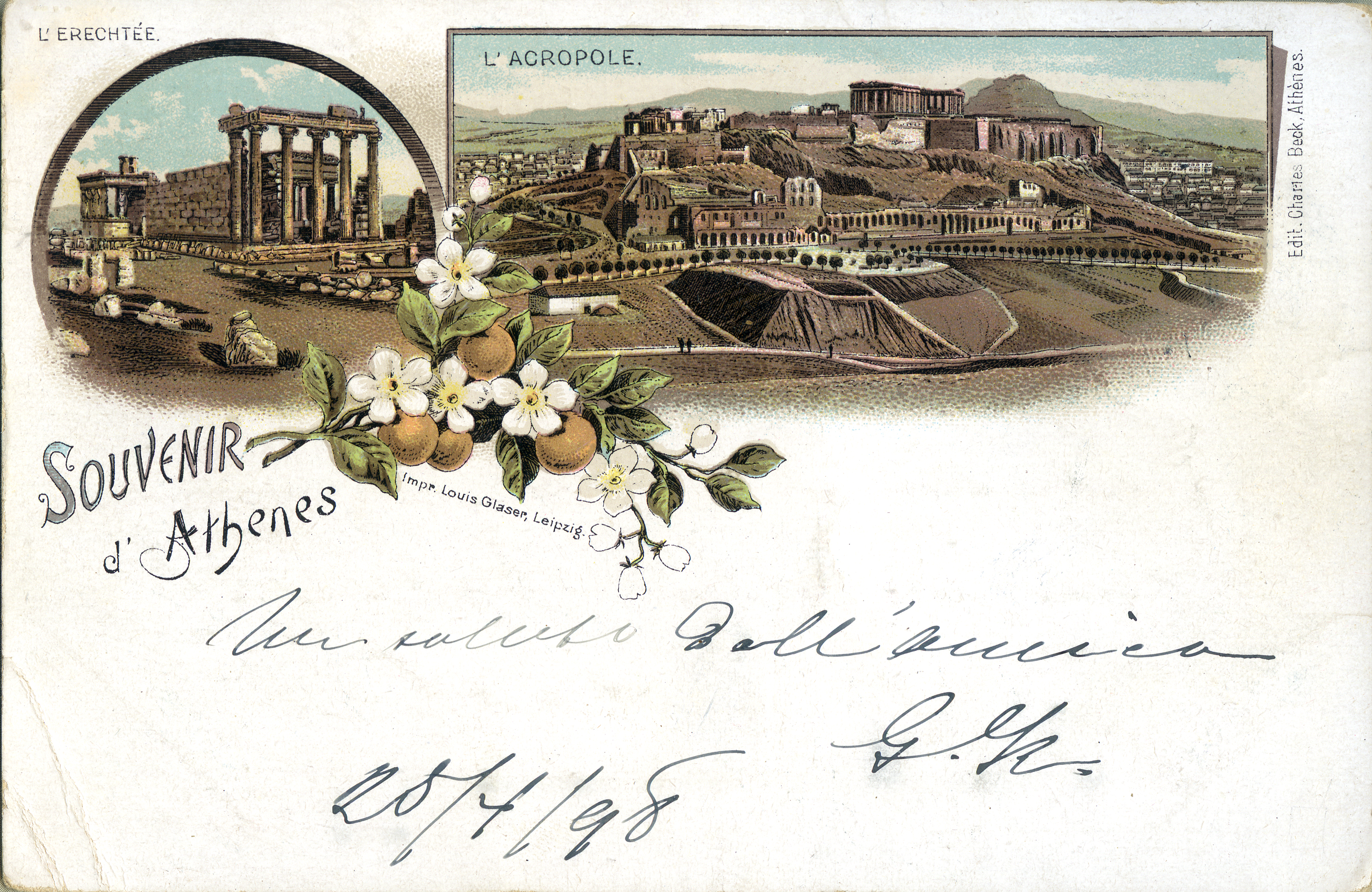 Souvenir of Athens. Early postcard published by Charles Beck in 1898.